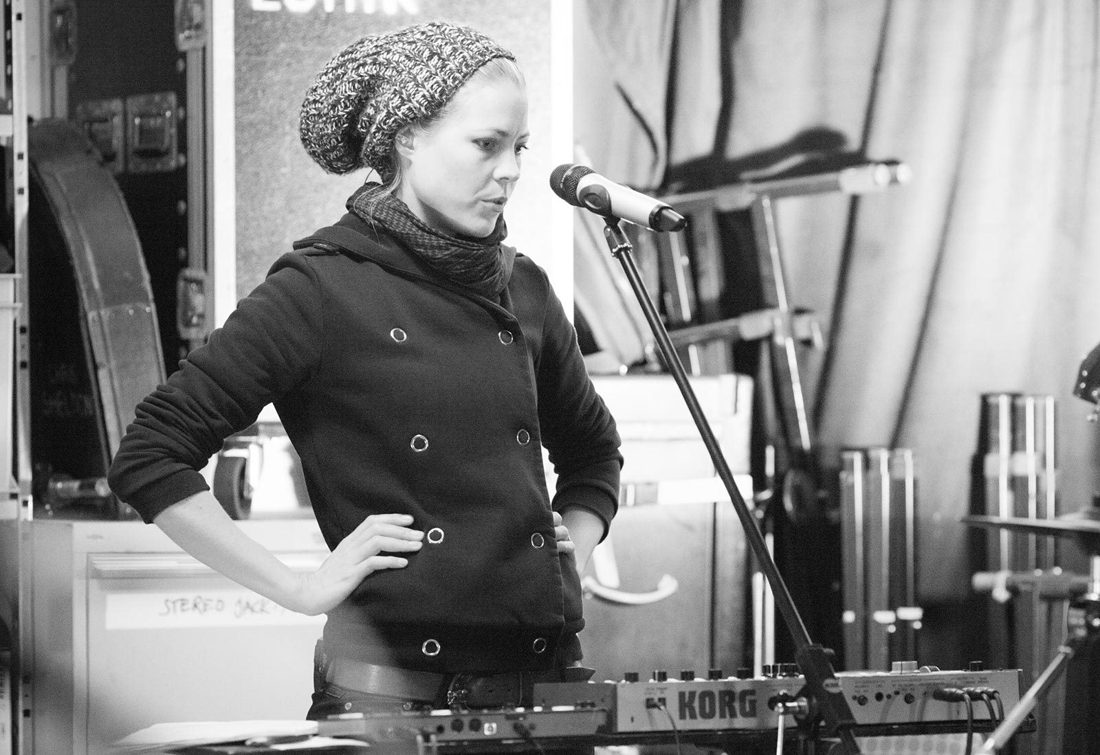 Jael's husband took this picture of her in the studio when recording "Shuffle The Cards".